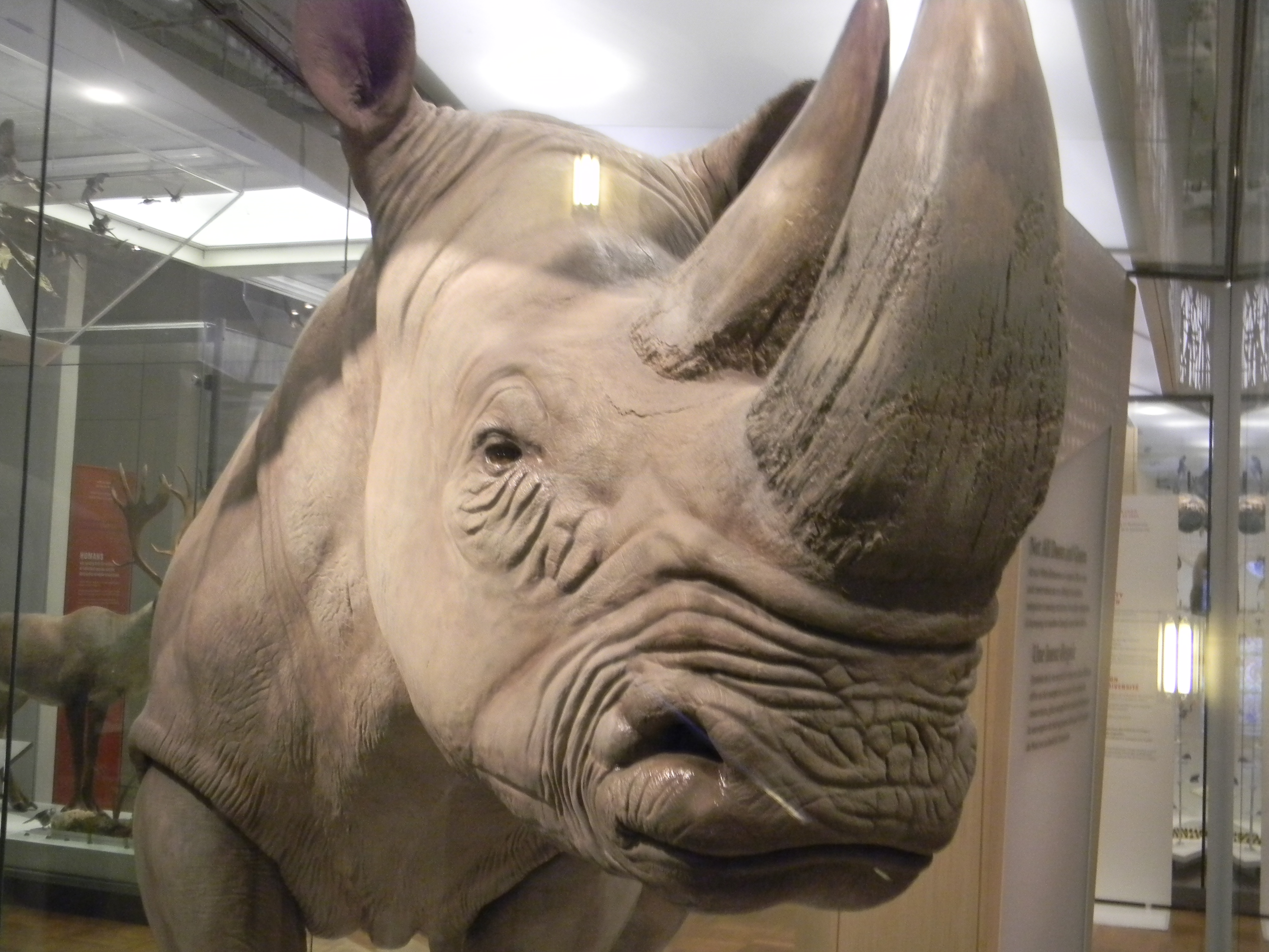 White Rhino, from Toronto's Zoo, Canada. Died at 2008. and successfully preserve after. Now in Royal Ontario Museum